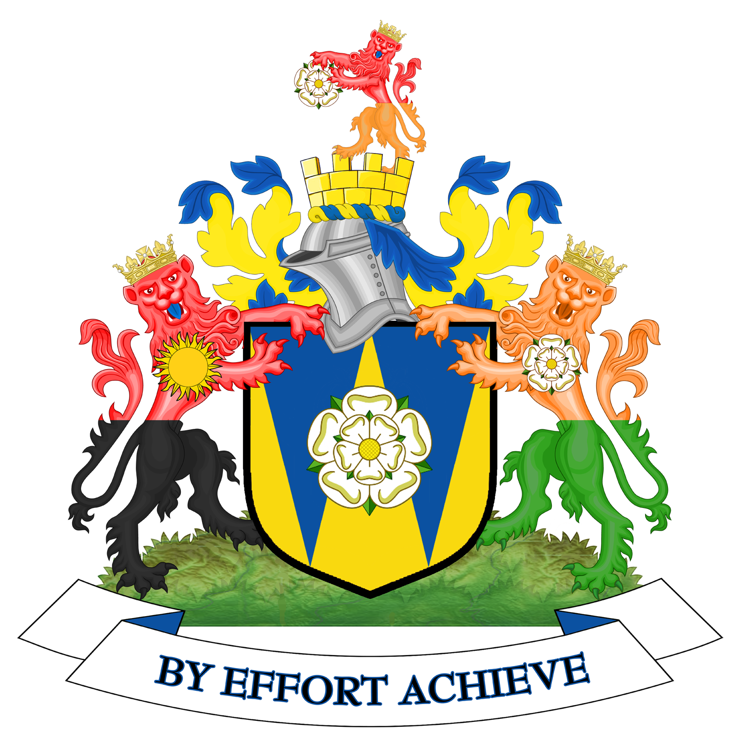 The Coat of arms of West Yorkshire County Council, the top-tier authority for the metropolitan county of West Yorkshire between 1974 and 1986. The blazon is:ARMS: Or two Piles Azure a Rose Argent barbed and seeded properCREST: On a Wreath of the Colours a Mural Crown Or standing thereon a Lion rampant guardant per fess Gules and Tenne crowned Or bearing in its forepaws a Rose Argent barbed and seeded proper.SUPPORTERS: Dexter a Lion rampant guardant per fess Gules and Sable armed and langued Azure crowned and charged on the shoulder with a Sun in splendour Or sinister a Lion rampant guardant per fess Tenne and Vert armed and langued Gules crowned Or charged on the shoulder with a Rose Argent barbed and seeded proper, the whole upon a Compartment representing the Pennine Hills; and for the motto: 'By effort achieve'.""